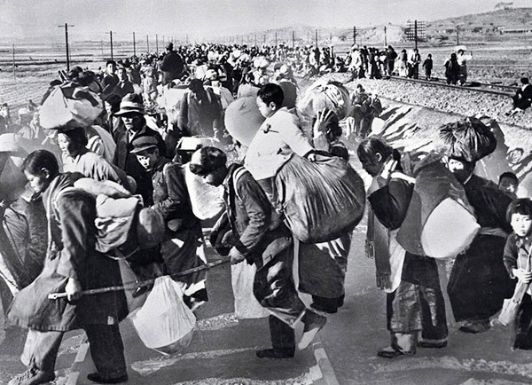 Hundreds of thousands of Koreans fled south in mid-1950 after the North Korean army struck across the border. Rumors spread among U.S. troops that the refugee columns harbored North Korean infiltrators.